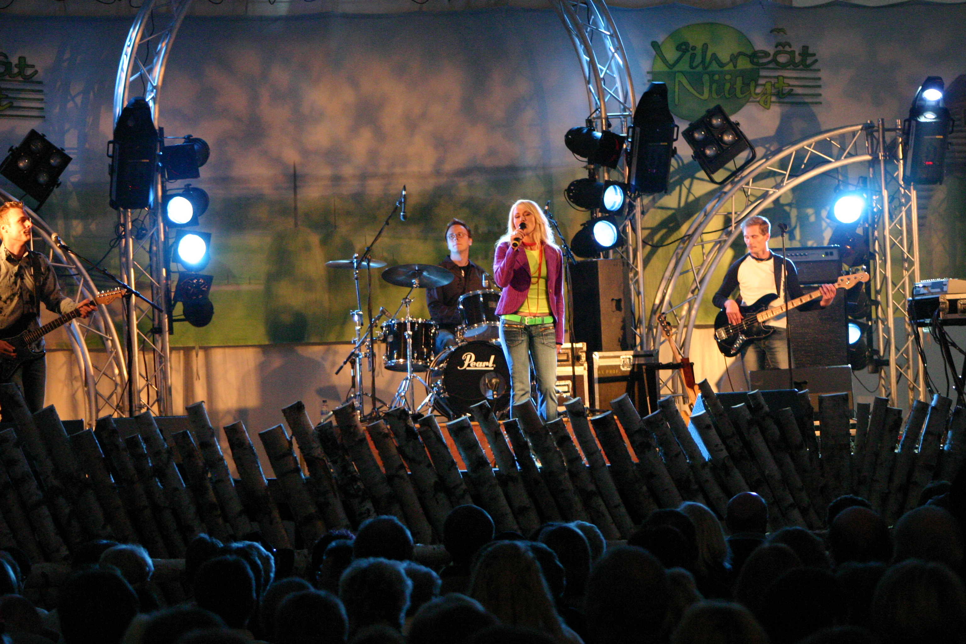 Anna Eriksson in Vihreät Niityt music festival in the summer 2004.